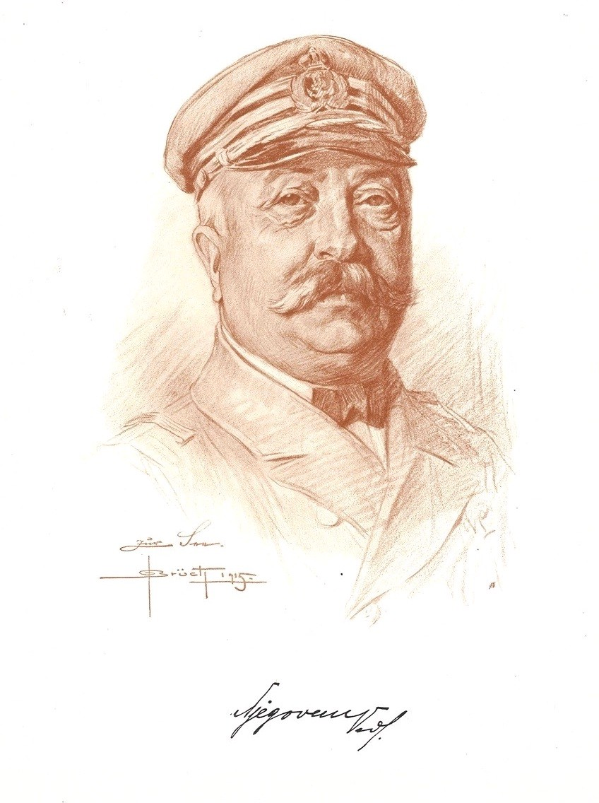 Maksimilijan Njegovan, austro-hungarian viceadmiral